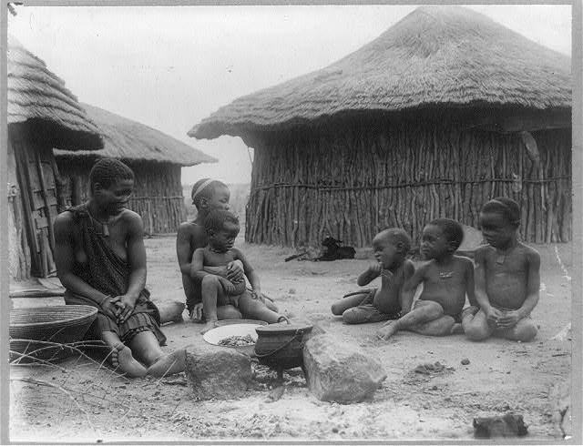 TITLE: [Native woman and five children in front of huts near Bulawayo, Rhodesia, Africa] Library of Congress Prints and Photographs Collection CALL NUMBER: LOT 11356-42 [P&P] REPRODUCTION NUMBER: LC-USZ62-97835 (b&w film copy neg.) No known restrictions on publication. MEDIUM: 1 photographic print. CREATED/PUBLISHED: [between 1890 and 1925] NOTES: Frank and Frances Carpenter Collection. SUBJECTS: Children & adults--Zimbabwe--Bulawayo--1890-1930. Domestic life--Zimbabwe--Bulawayo--1890-1930. FORMAT: Photographic prints 1890-1930. DIGITAL ID: (b&w film copy neg.) cph 3b43927 VIDEO FRAME ID: LCPP003B-43927 CARD #: 89714073